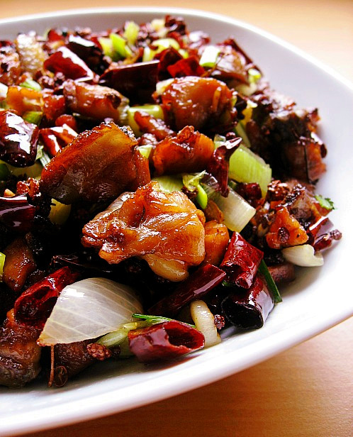 Spicy Chicken